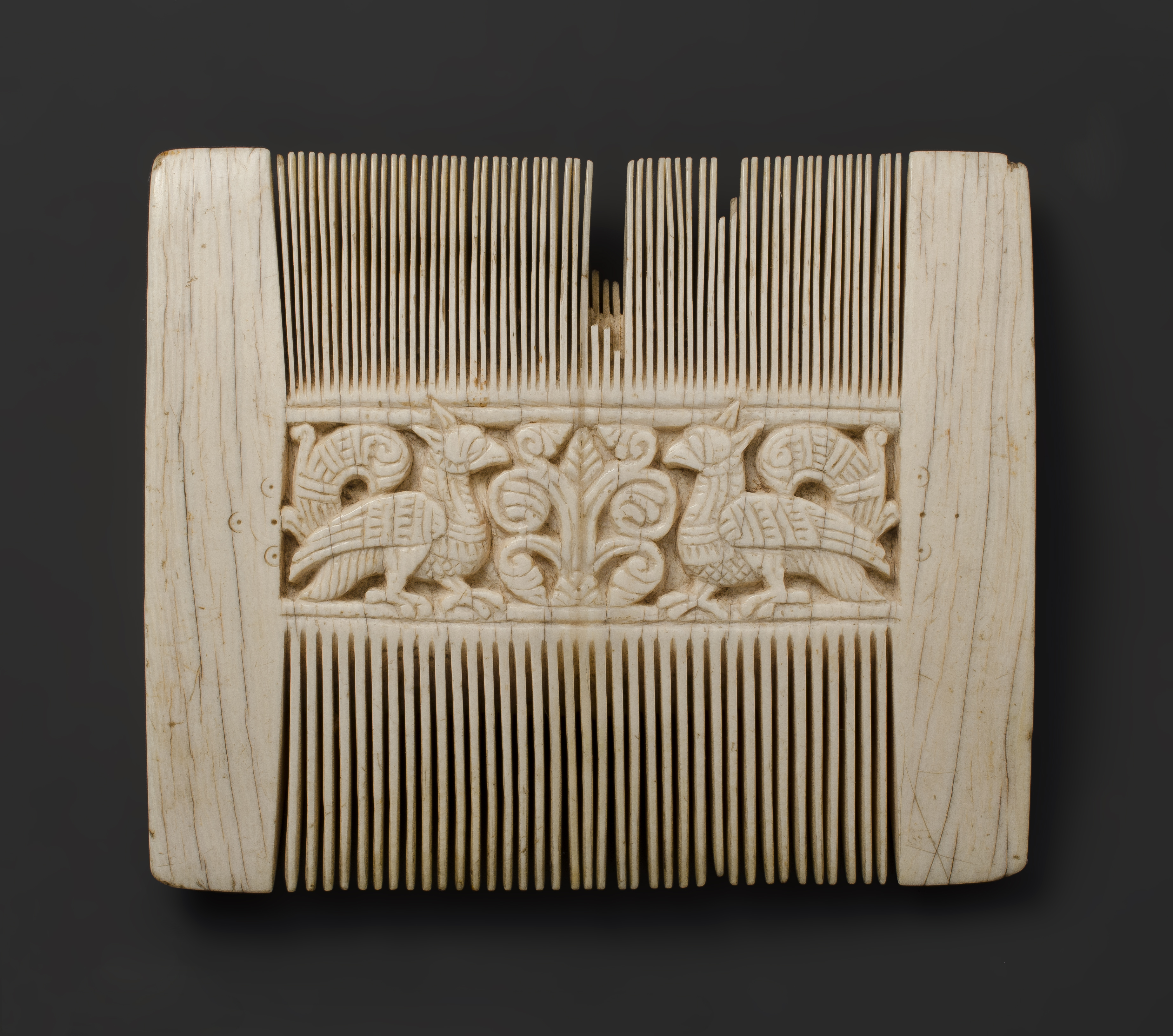 Italian; Comb; Ivories